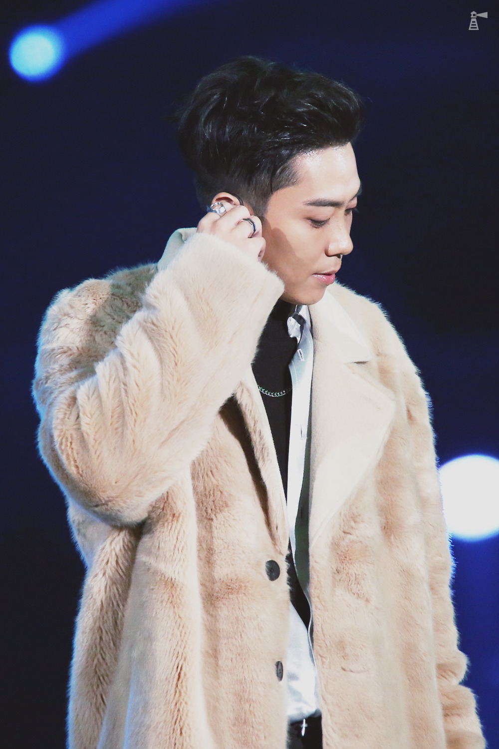 161119 Eun Ji Won at 2016 Melon Music Awards